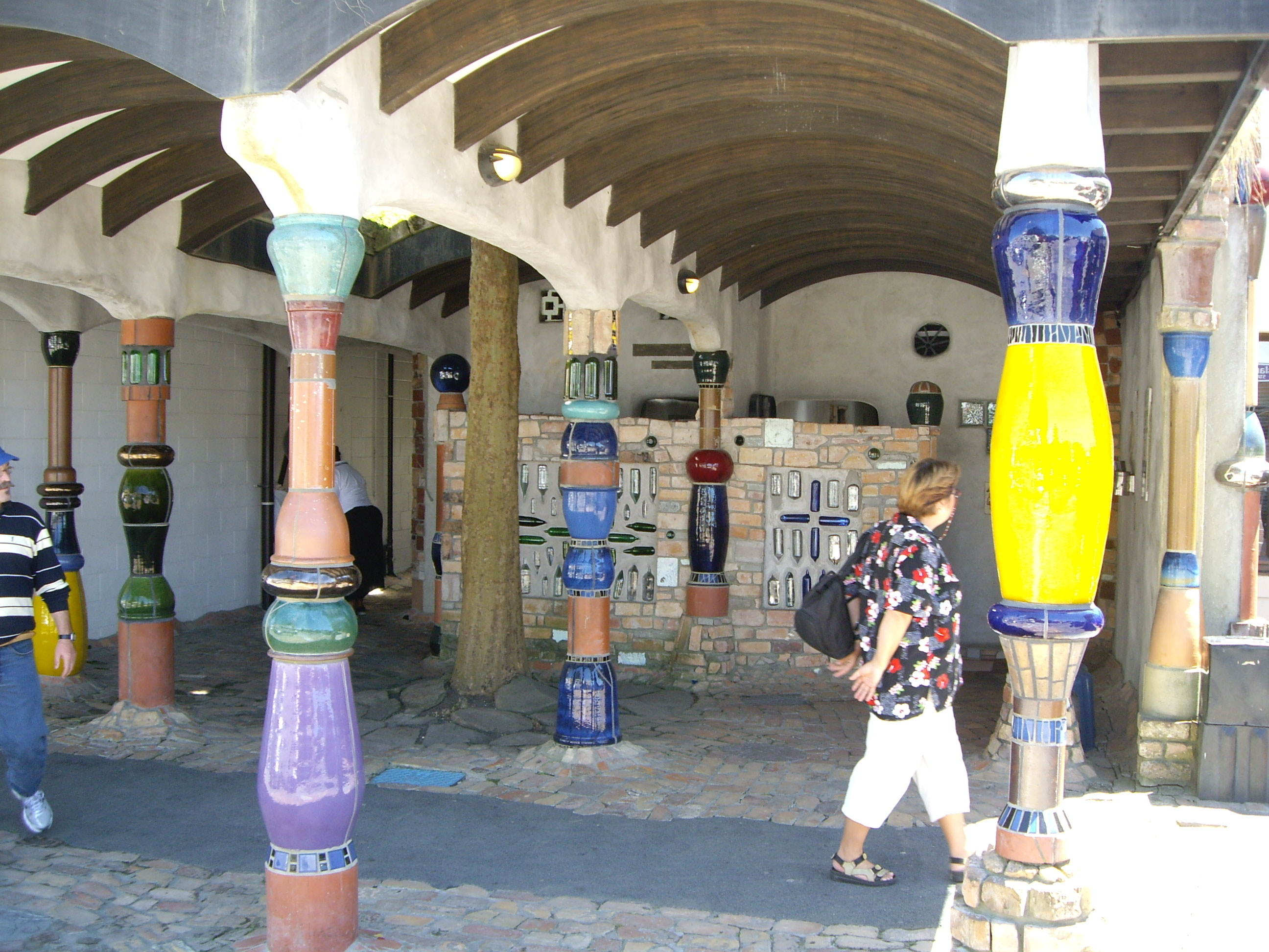 Hundertwasser Toilets, Kawakawa - an interior .